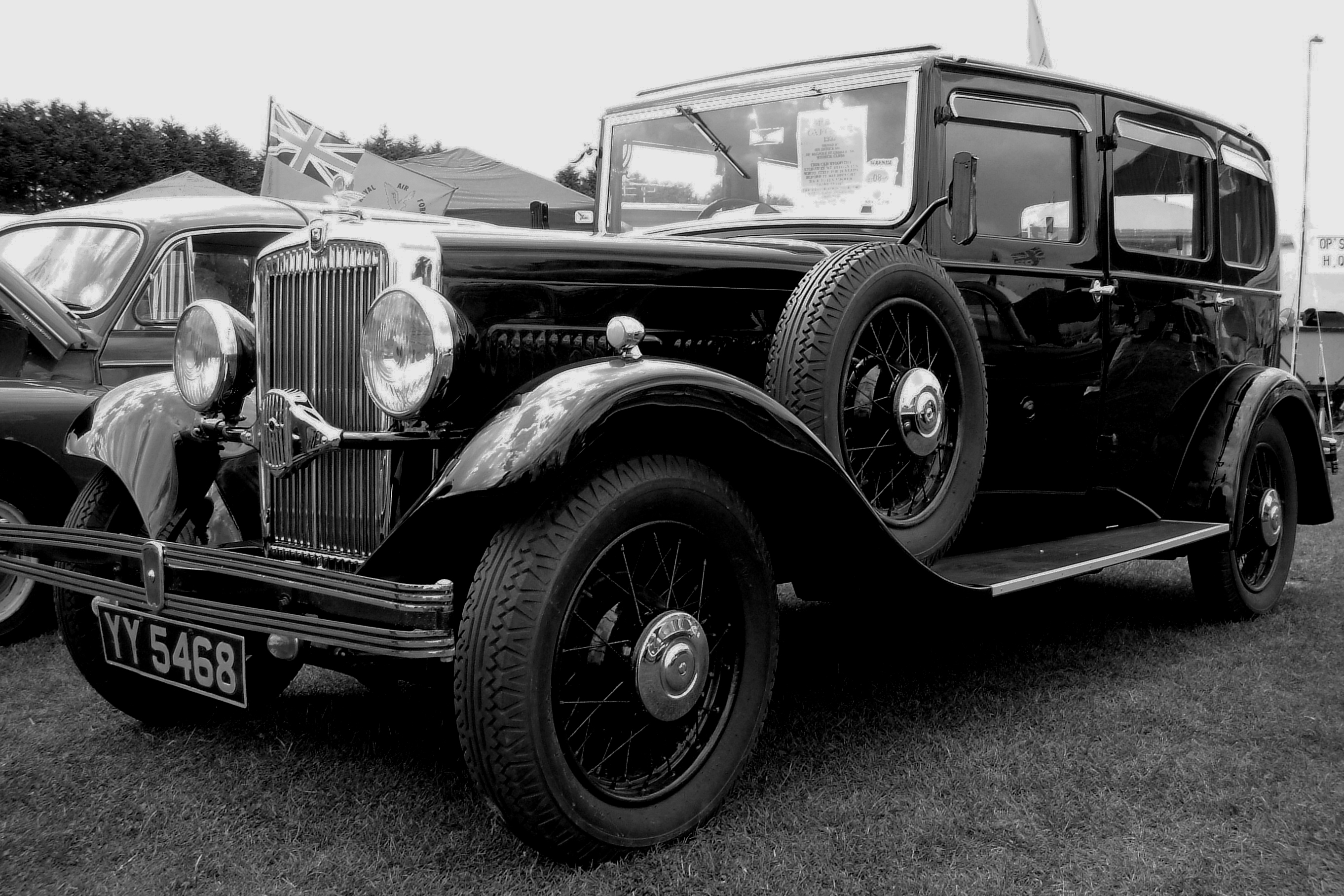 1933 Morris Oxford Six Q series (DVLA) first registered 31 December 1932 (new 1933 model) 2062 cc historic military vehicle show at Fleet Hargate Lincolnshire